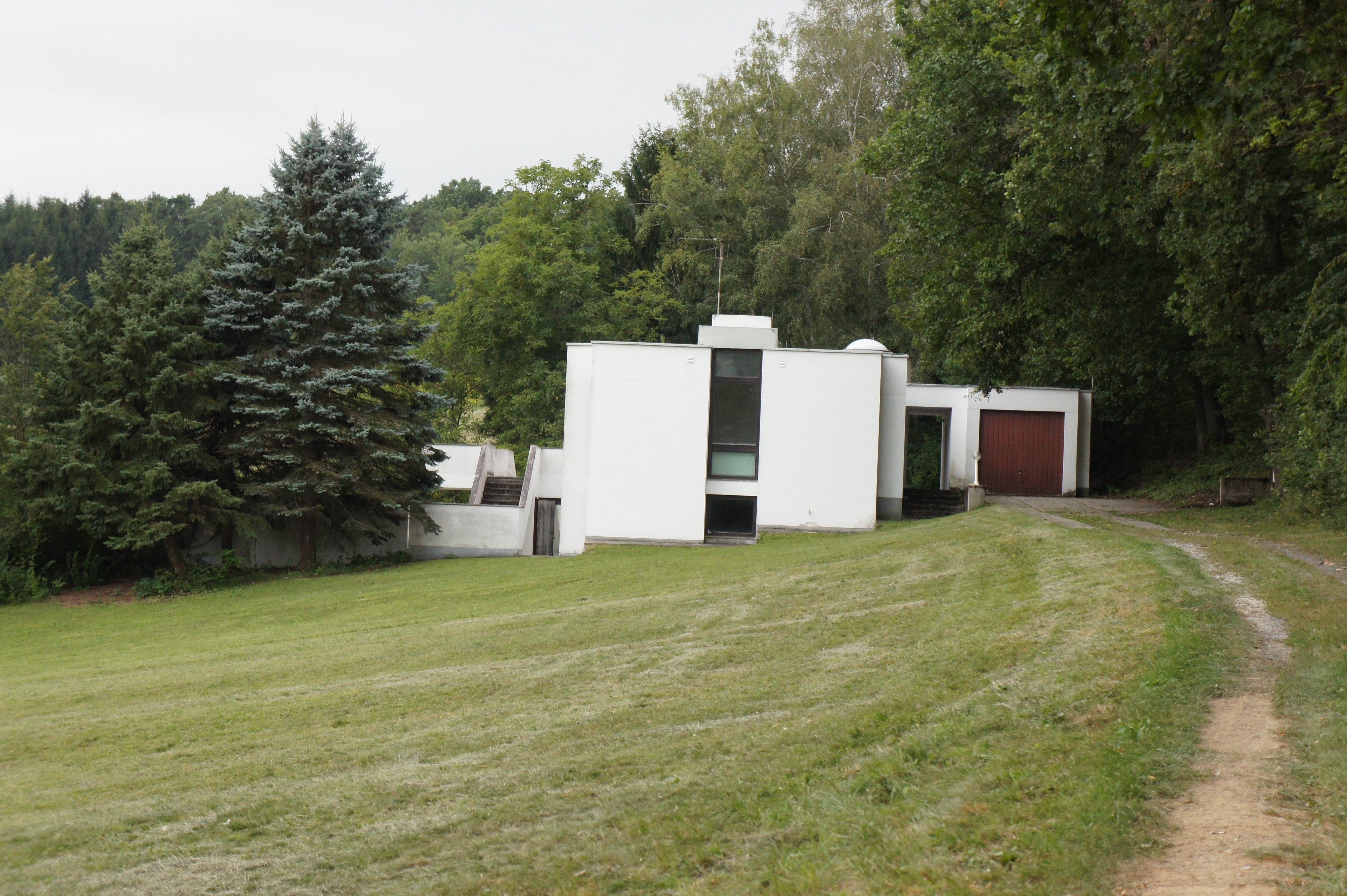 Residential house Dellacher, Oberwart, Austria